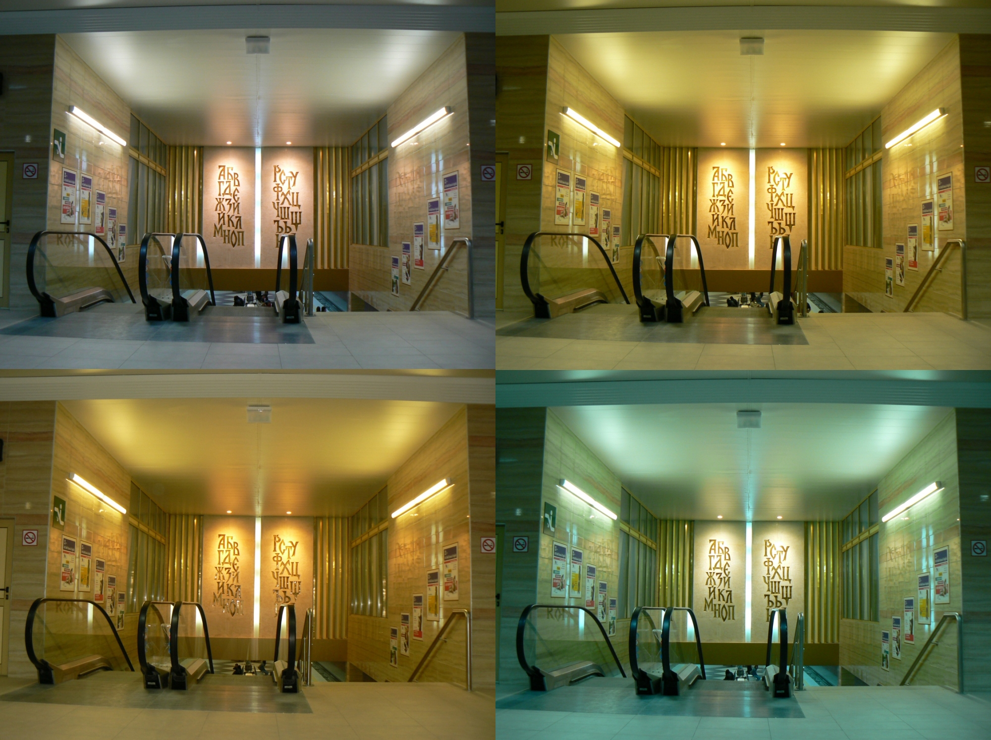 Collage of 4 images of Metro station "Sofia University", Sofia. The image illustrates the differences in the white balance setting. Up left: auto WB, up right: sun, down left: flash, down right: wolfram bulb